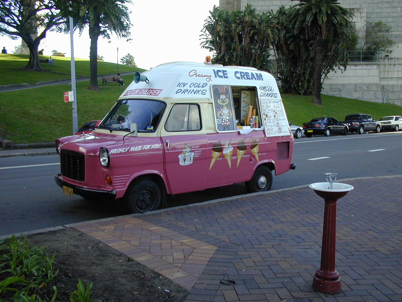 Ice cream truck in Sydney, Australia